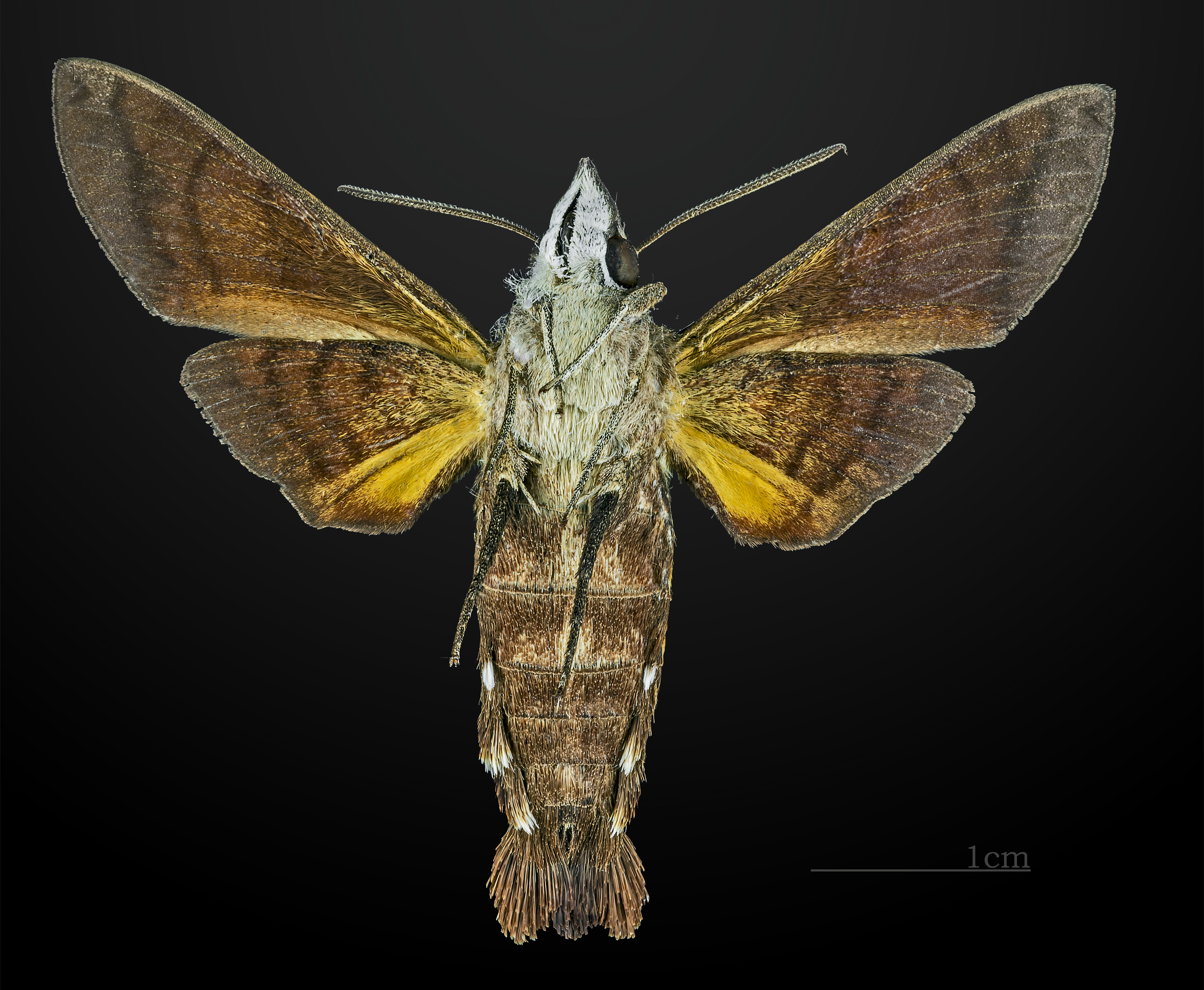 Macroglossum belis - △ Ventral side Collection of the Mathematician Laurent Schwartz